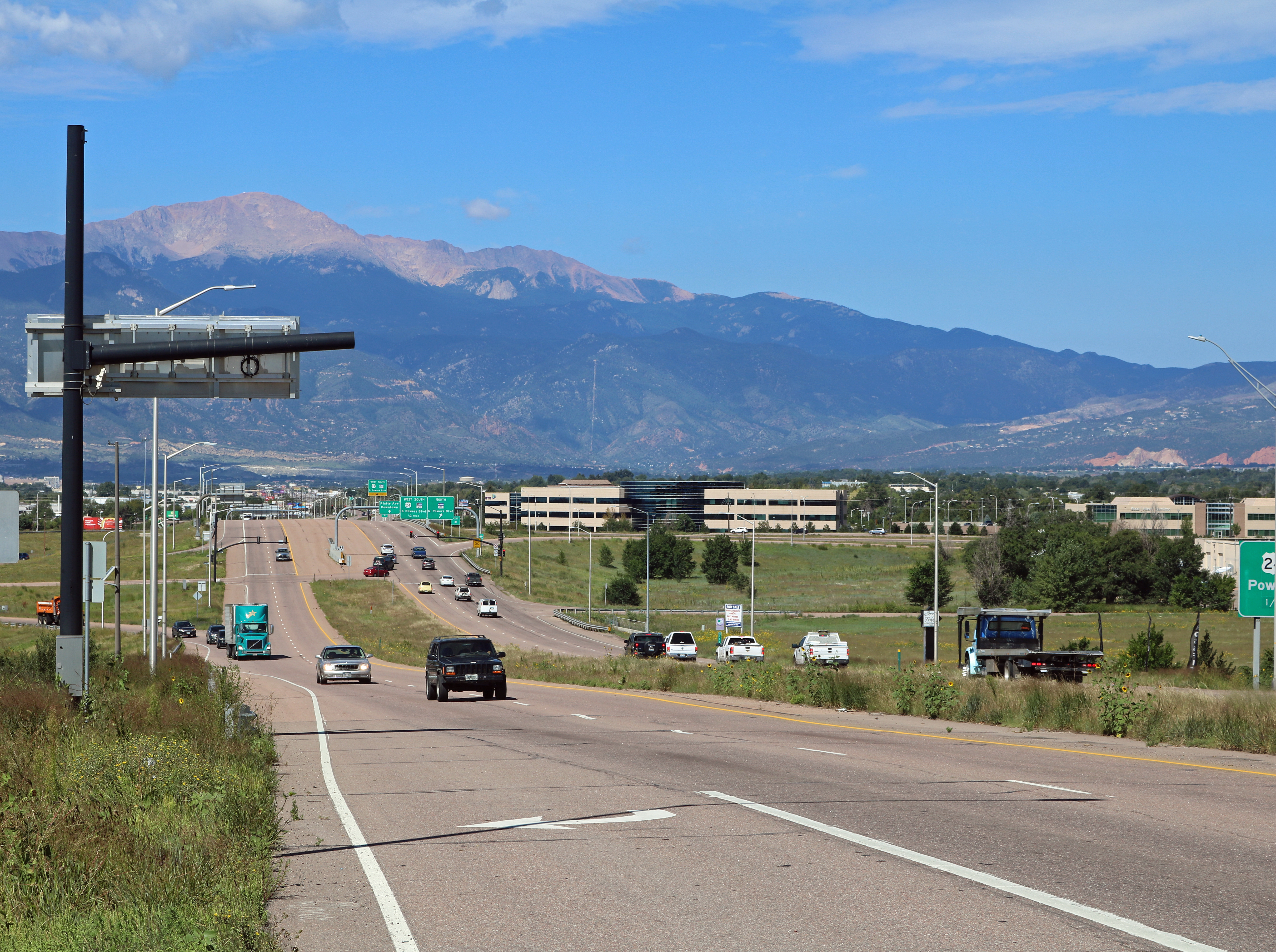 Looking west (towards Pikes Peak) along East Platte Avenue at its intersection with Motel Road in Cimarron Hills, Colorado.